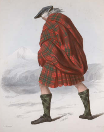 "MacAulay". A plate illustrated by R. R. McIan, from James Logan's The Clans of the Scottish Highlands, published in 1845.